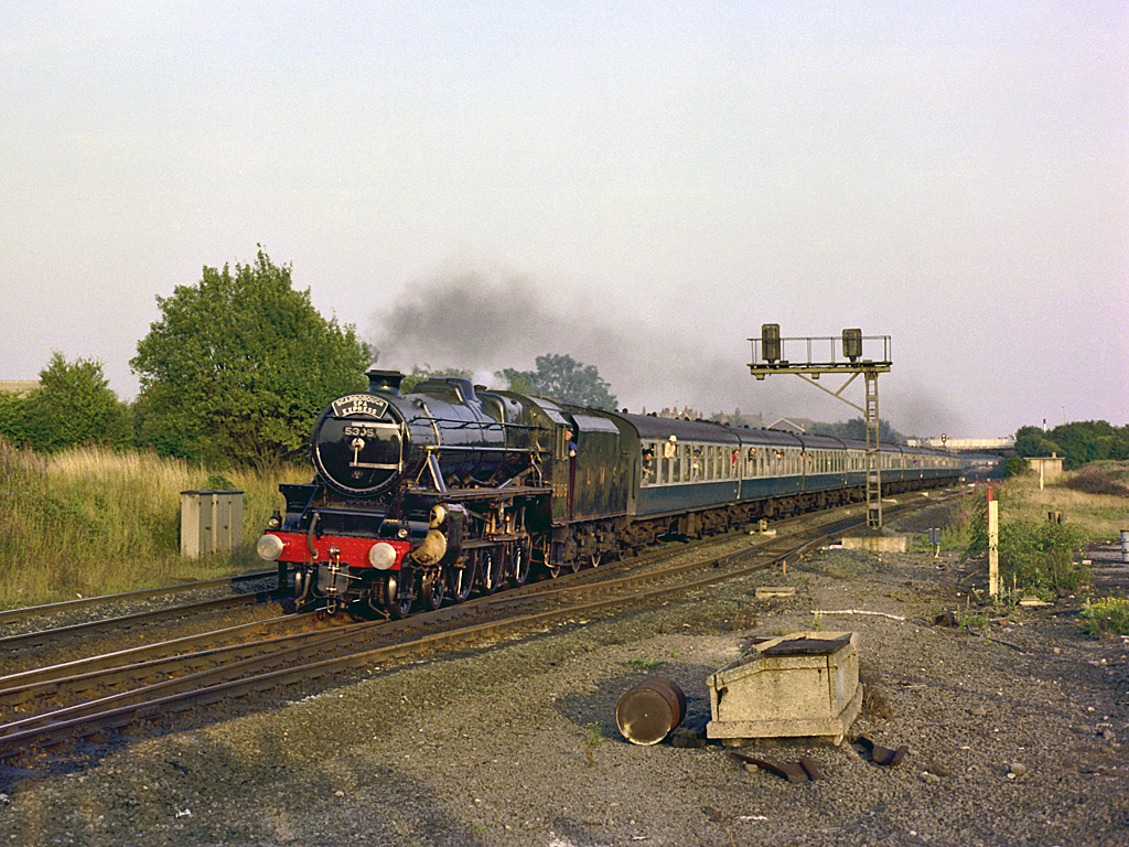 London, Midland and Scottish Railway Stanier 5P5F 4-6-0 'Black Five' class locomotive number 5305 approaches Garforth station on the Up main line with the 17:20 Scarborough to York Scarborough Spa Express (1L97). Thursday 18th August 1983